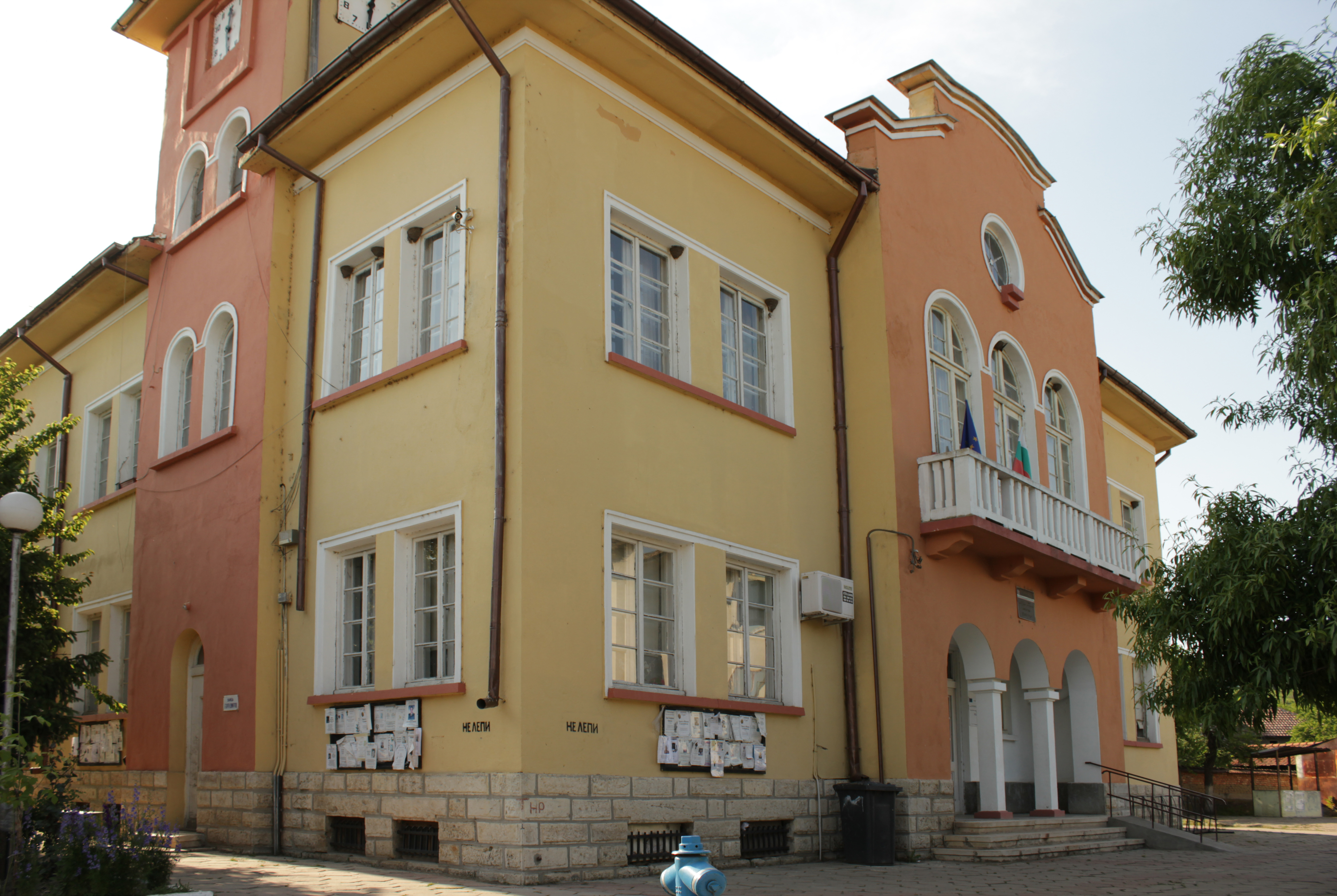 Stavertsi townhall